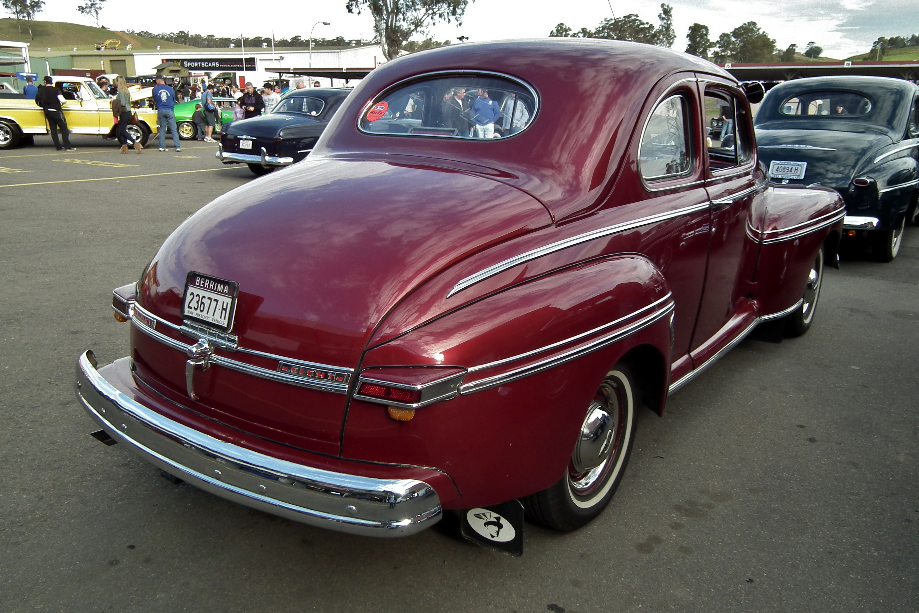 1946 Mercury Eight coupe. Taken at the 2011 New South Wales All Ford Day, held at Eastern Creek Raceway.